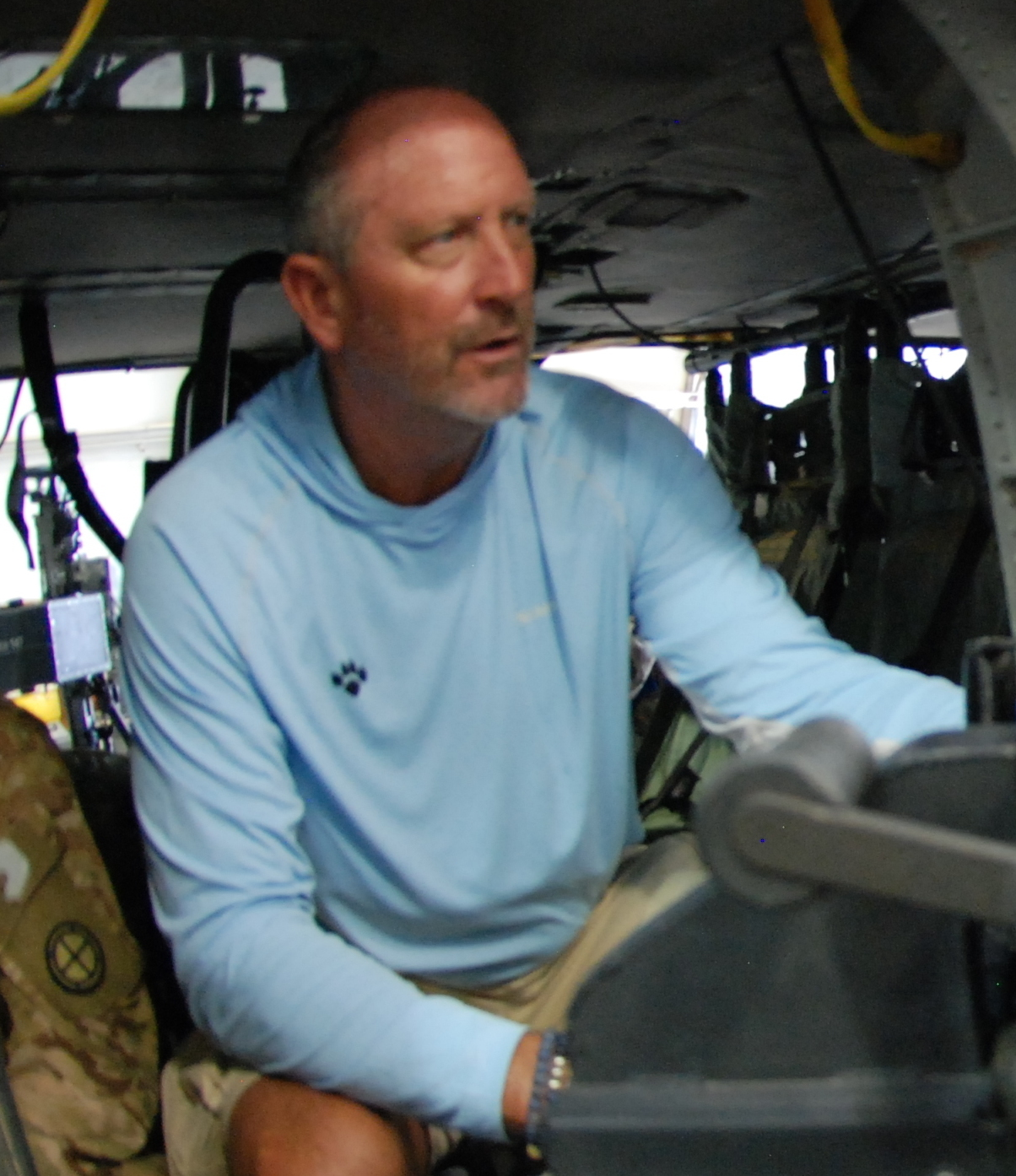 Former Kansas City Royals baseball player, Bret Saberhagen, sits in the crew chief’s seat while Kansas National Guard Sgt. Daniel Barnett, assigned to C. Company, 1-108th Assault Helicopter Battalion, describes the many responsibilities of a crew chief in a helicopter hangar on Camp Buehring, Kuwait, Sept. 11, 2018. The players were able to sit in the multiple different seats of a Black Hawk helicopter, including the pilot’s seat. (U.S. Army National Guard photo by Sgt. Billie Thompson)